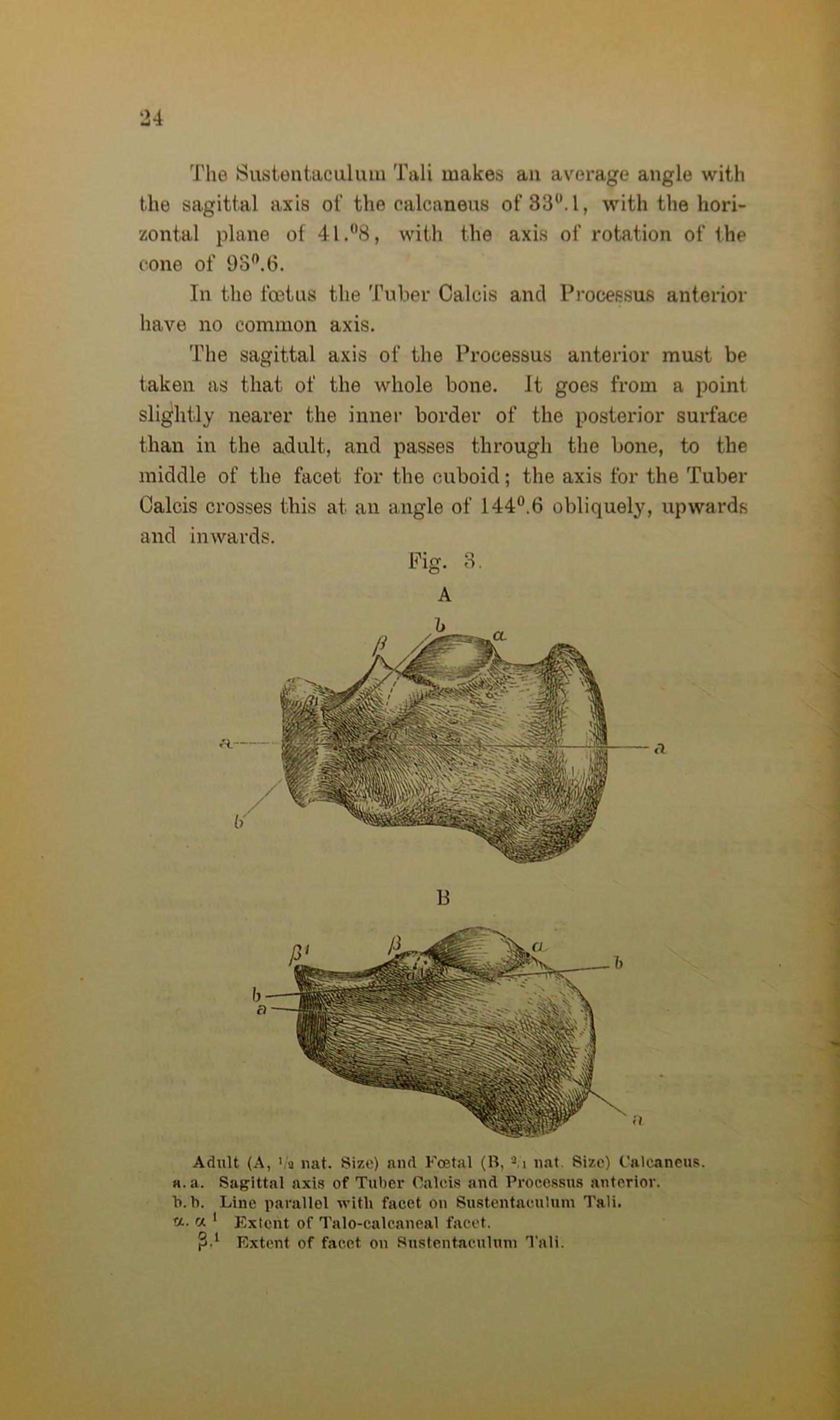 Engraved illustration of the adult and foetal heel bone (calcaneus) showing the sagittal axis of tuber calcis and processus anterior, sustentaculum tali, the extent of the talo-calcaneal facet and the extent of facet on the sustentaculum tali. From The Ankle Joint of Man (1877) by Ann Elizabeth Clark.